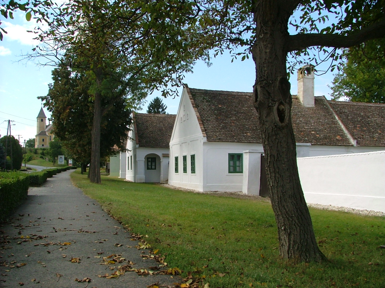 Fertőszéplak, traditional houses, part of the UNESCO World Heritage This is a photo of a monument in Hungary, Identifier: 4128 This is a photo of a monument in Hungary, Identifier: 4139 This is a photo of a monument in Hungary, Identifier: 4140